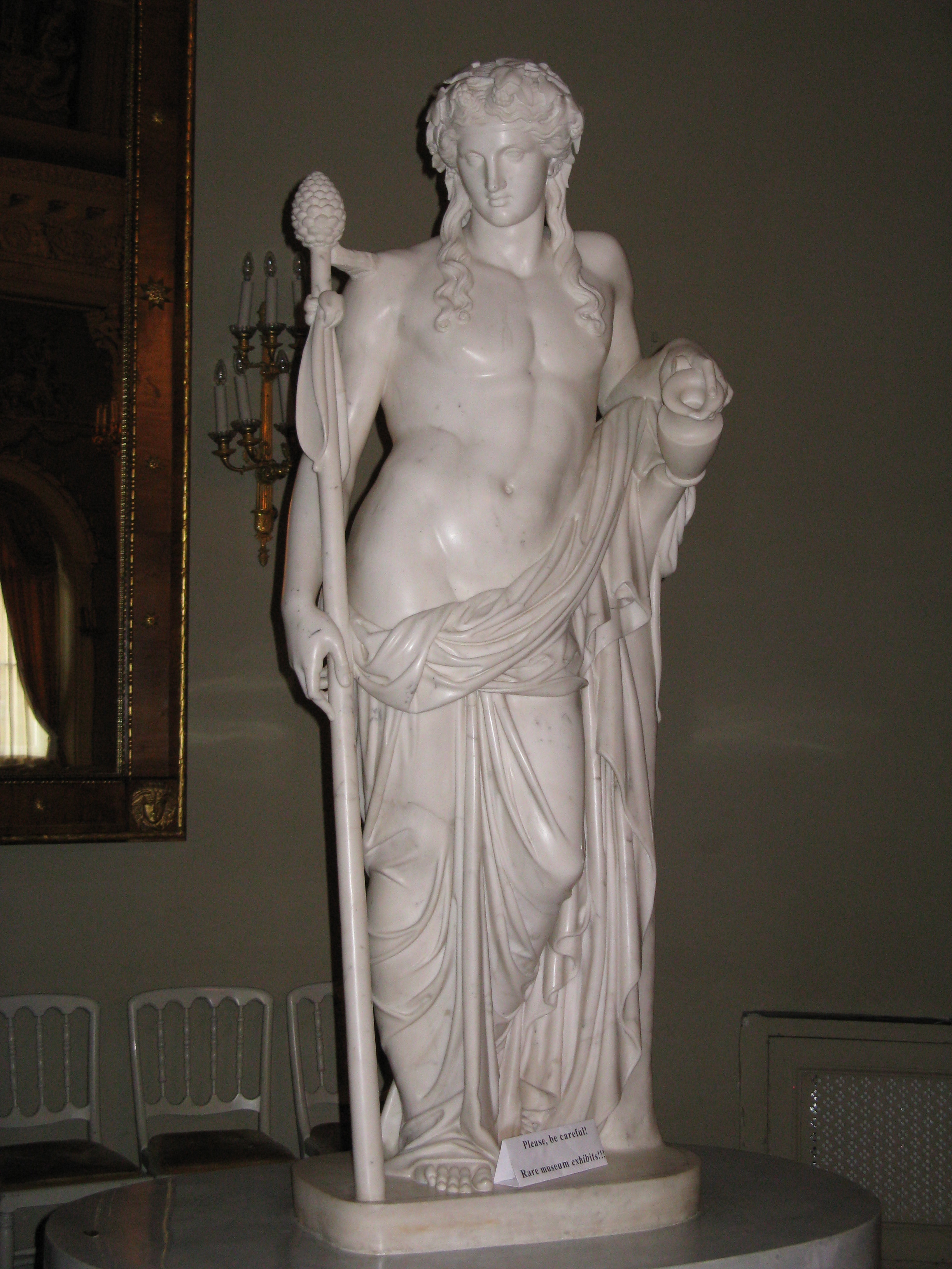 Dionysos at Yusupov Palace.